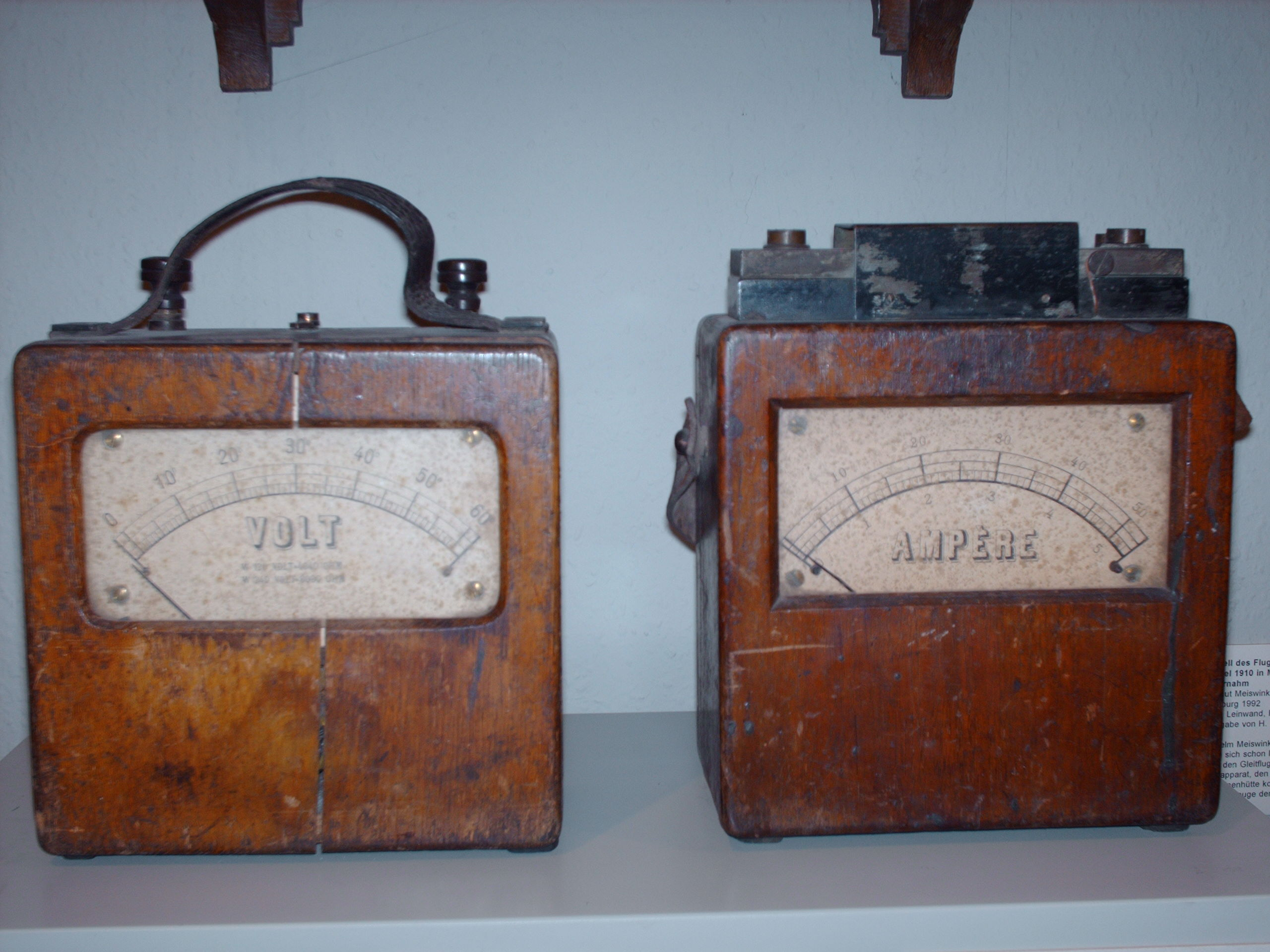 Historical voltameter and ampéremeter (1920) check usage